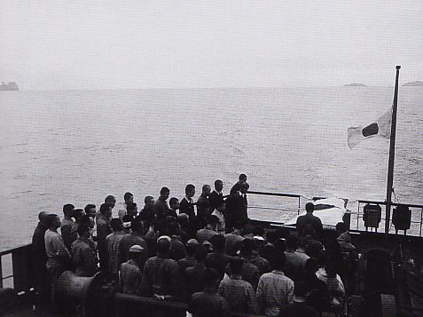 Funeral of repatriates on shipboard